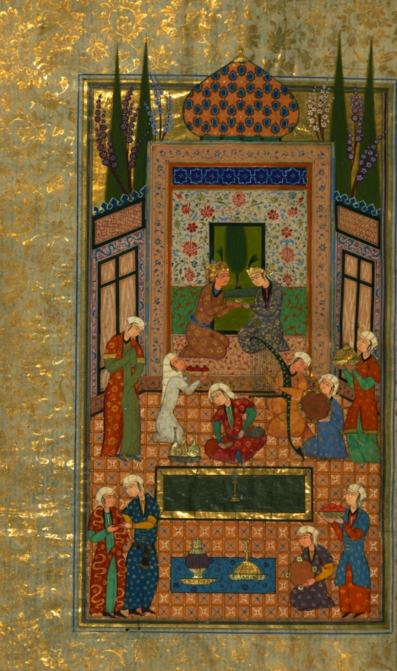 This folio from Walters manuscript W.607 depicts Bahram Gur in the sandalwood pavilion.